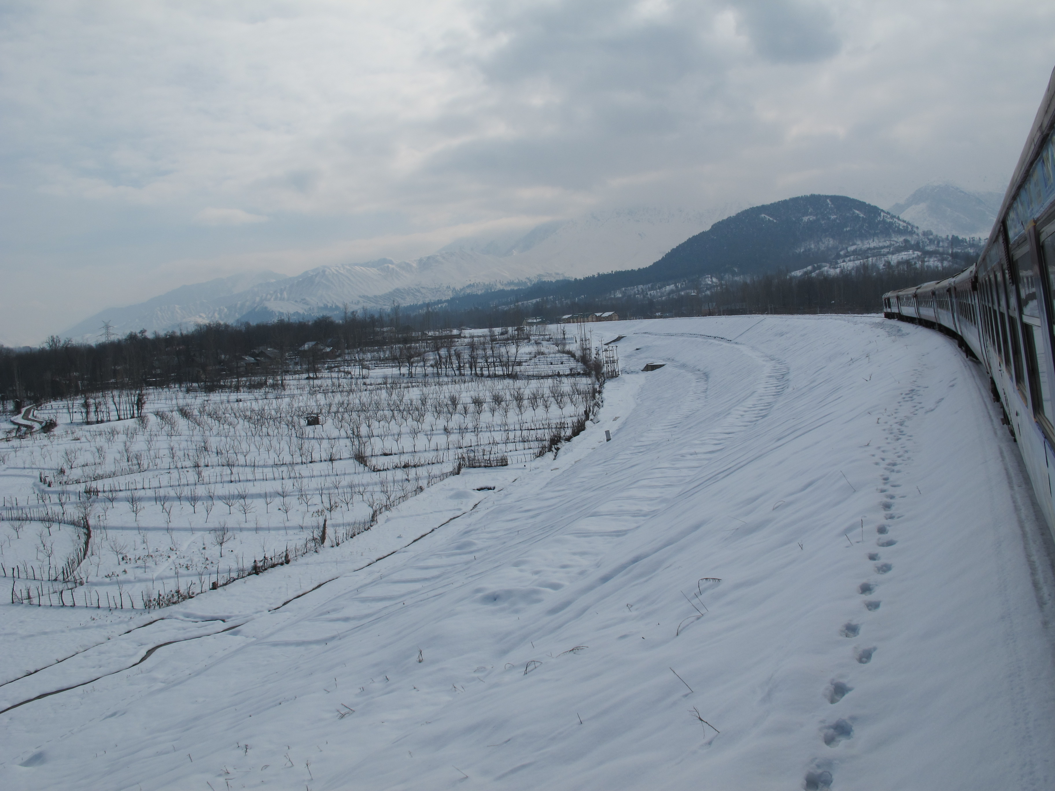 A railway curve near Qazigund station